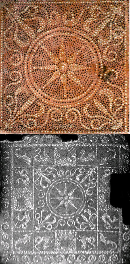 Ai Khanum mosaic 2nd 3rd century BC